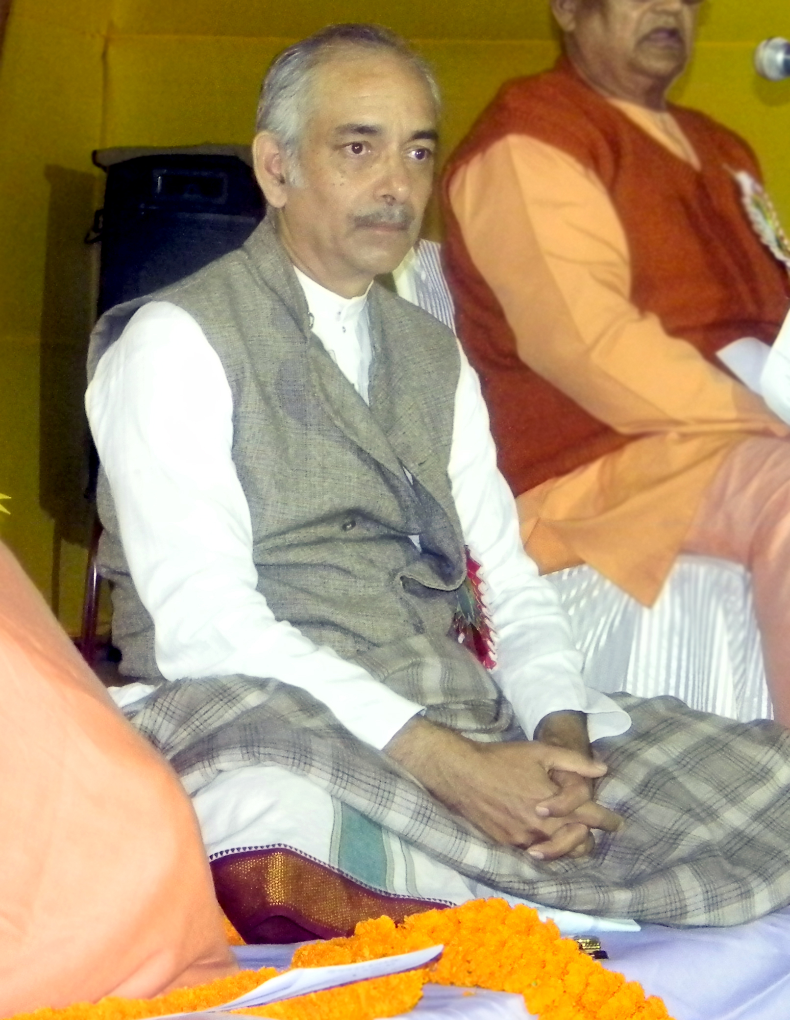 Current King of Puri - Gajapati Maharaja Dibyasingha Deb This media file is uploaded with Odia loves Wikipedia